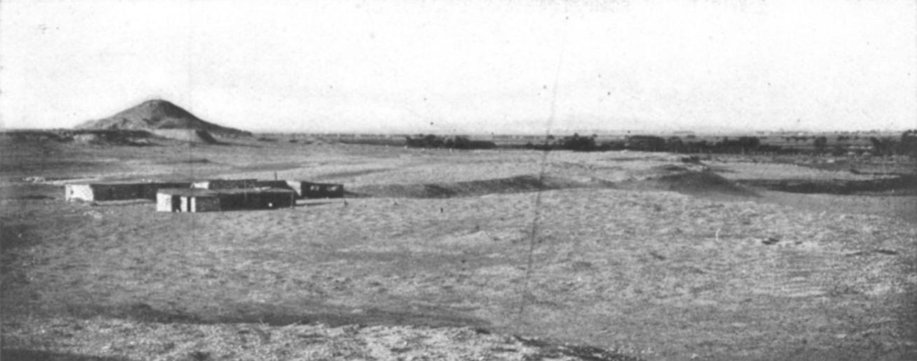 The Pyramid of Amenemhat I with mastaba cemetery (left) and excavation headquarters (foreground), view from southeast